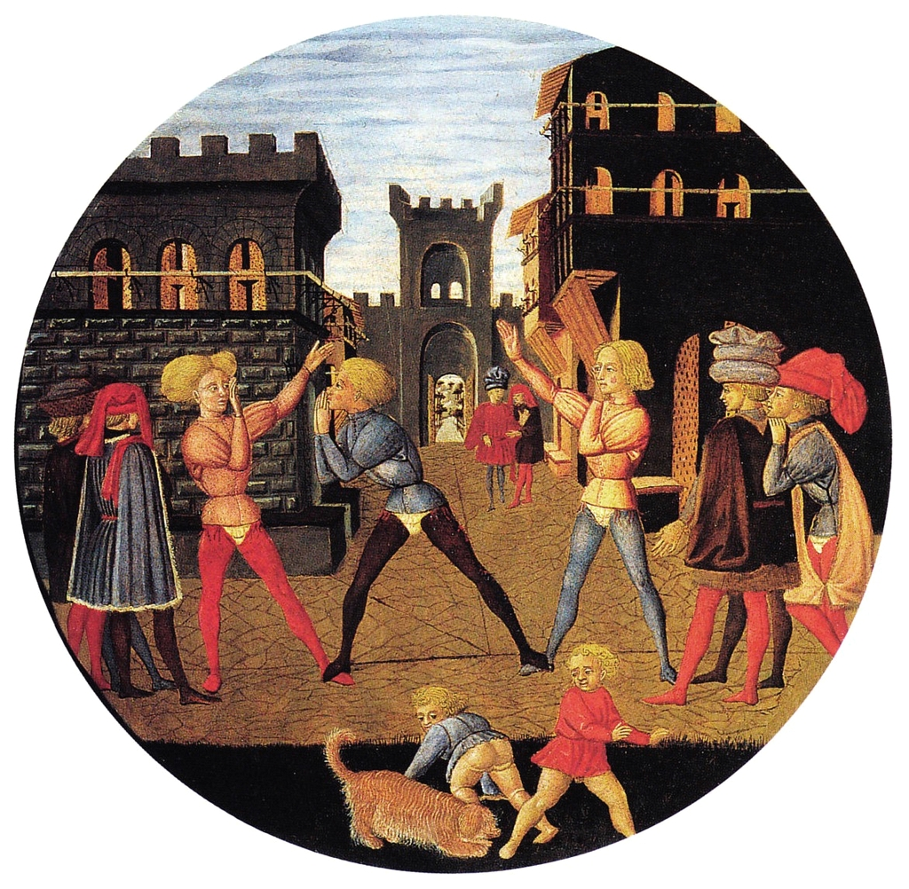 Lo Scheggia, Youths playing Civettino. ca. 1450, Museo di Palazzo Davanzati, Firenze